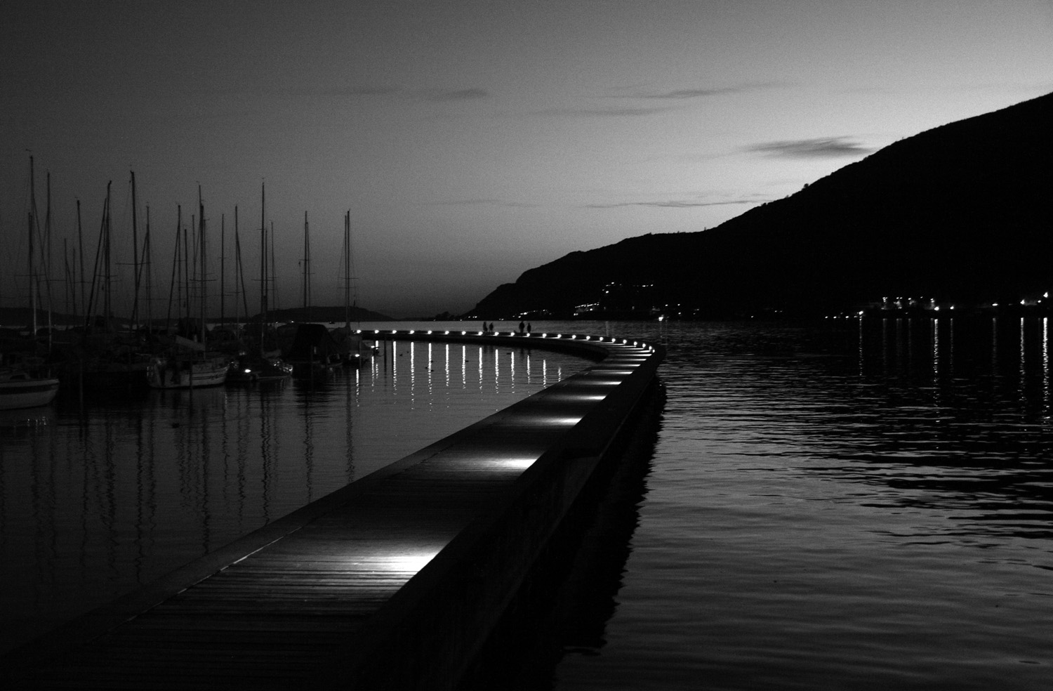 Sunset over the port basin in Biel/Bienne (Switzerland)